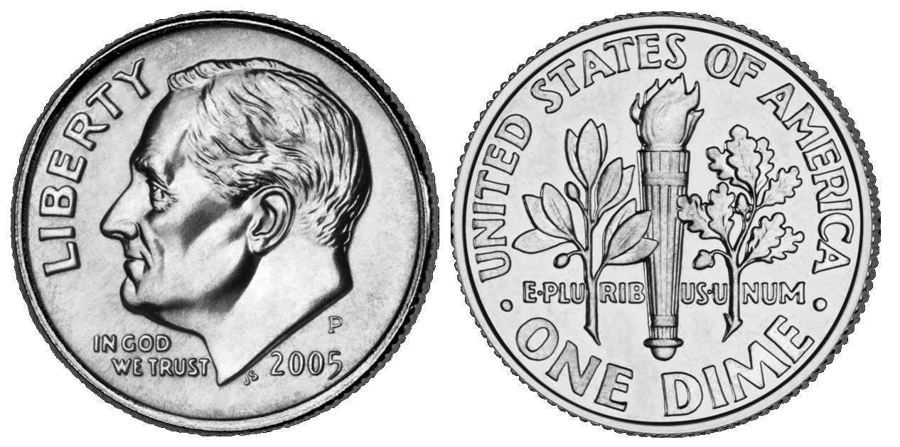 This image depicts a unit of currency issued by the United States of America. If Fraudulent use of this image is punishable under applicable counterfeiting laws. As listed by the United States Secret Service at money illustrations, the Counterfeit Detection Act of 1992, Public Law 102-550, in Section 411 of Title 31 of the Code of Federal Regulations (31 CFR 411), permits color illustrations of U.S. currency provided:1. The illustration is of a size less than three-fourths or more than one and one-half, in linear dimension, of each part of the item illustrated;2. The illustration is one-sided; and3. All negatives, plates, positives, digitized storage medium, graphic files, magnetic medium, optical storage devices, and any other thing used in the making of the illustration that contain an image of the illustration or any part thereof are destroyed and/or deleted or erased after their final use. Certain coins contain copyrights licensed to the U.S. Mint and owned by third parties or assigned to and owned by the U.S. Mint [1]. For the United States Mint circulating coin design use policy, see [2]; for the policy on the 50 State Quarters, see [3]. Also: COM:ART #Photograph of an old coin found on the Internet